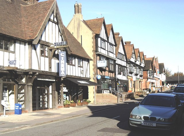 North side of Station Road, Oxted. Both sides of Station Road are in the attractive Tudor style so characteristic of twentieth century domestic and commercial buildings in Surrey. What is more unusual is that even the cinema is in this style.